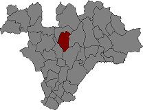 Location of la Garriga in Vallès Oriental